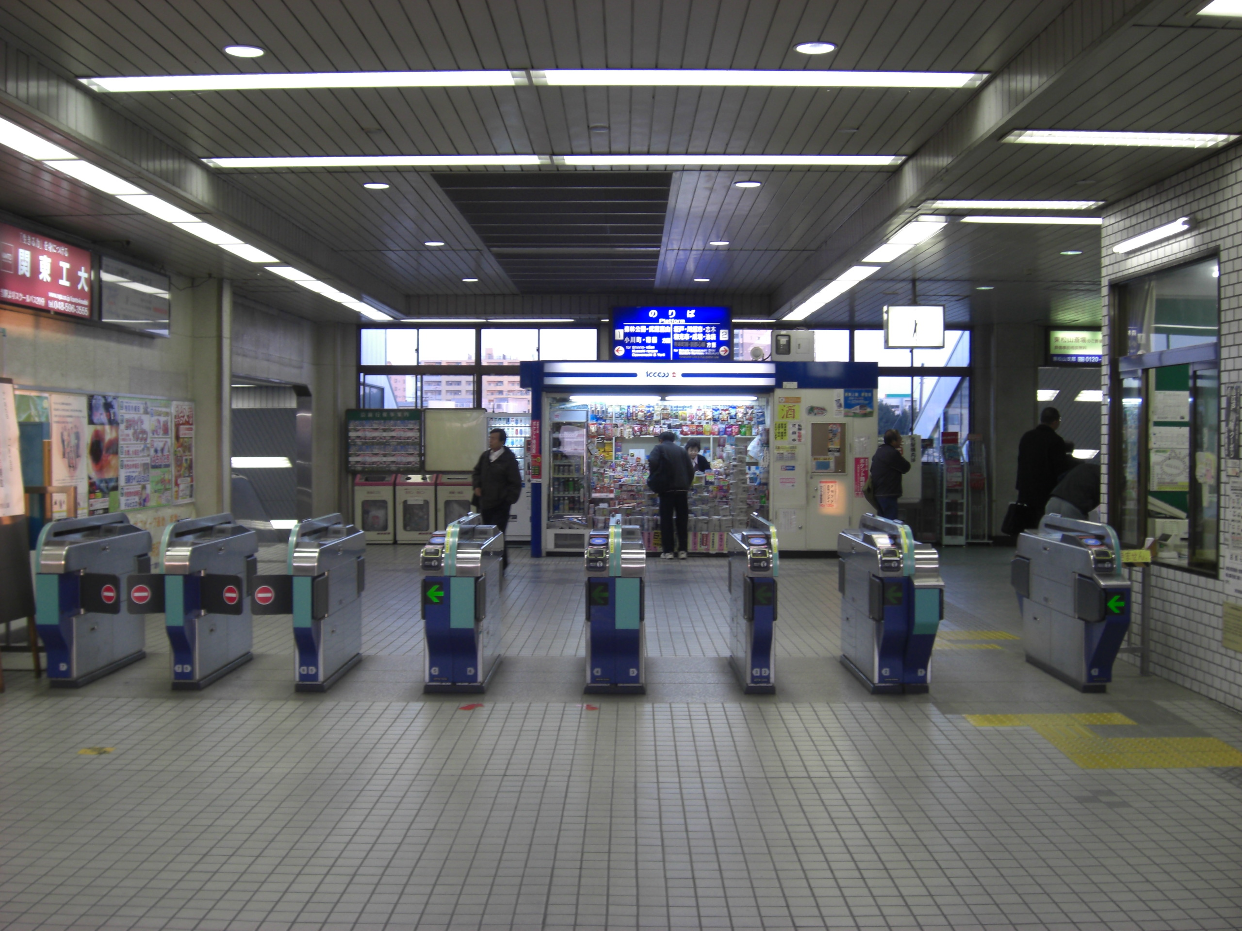 The ticket barriers at Higashi-Matsuyama Station on the Tobu Tojo Line in Saitama Prefecture, Japan